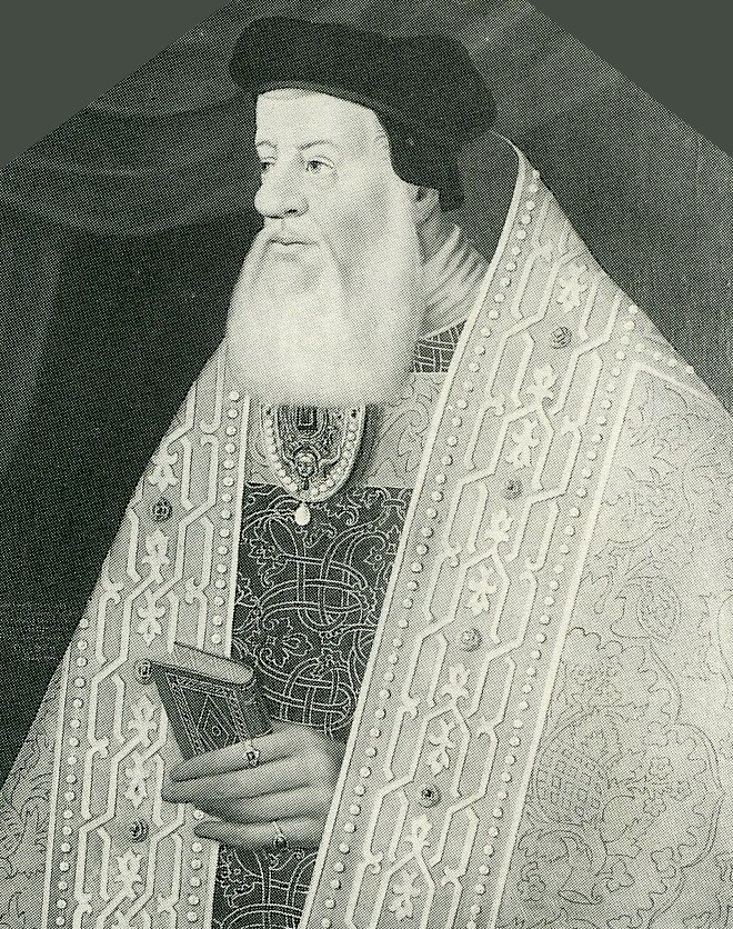 Portrait of Hermann von Wied, Archbishop-Elector of Cologne (1477–1552).